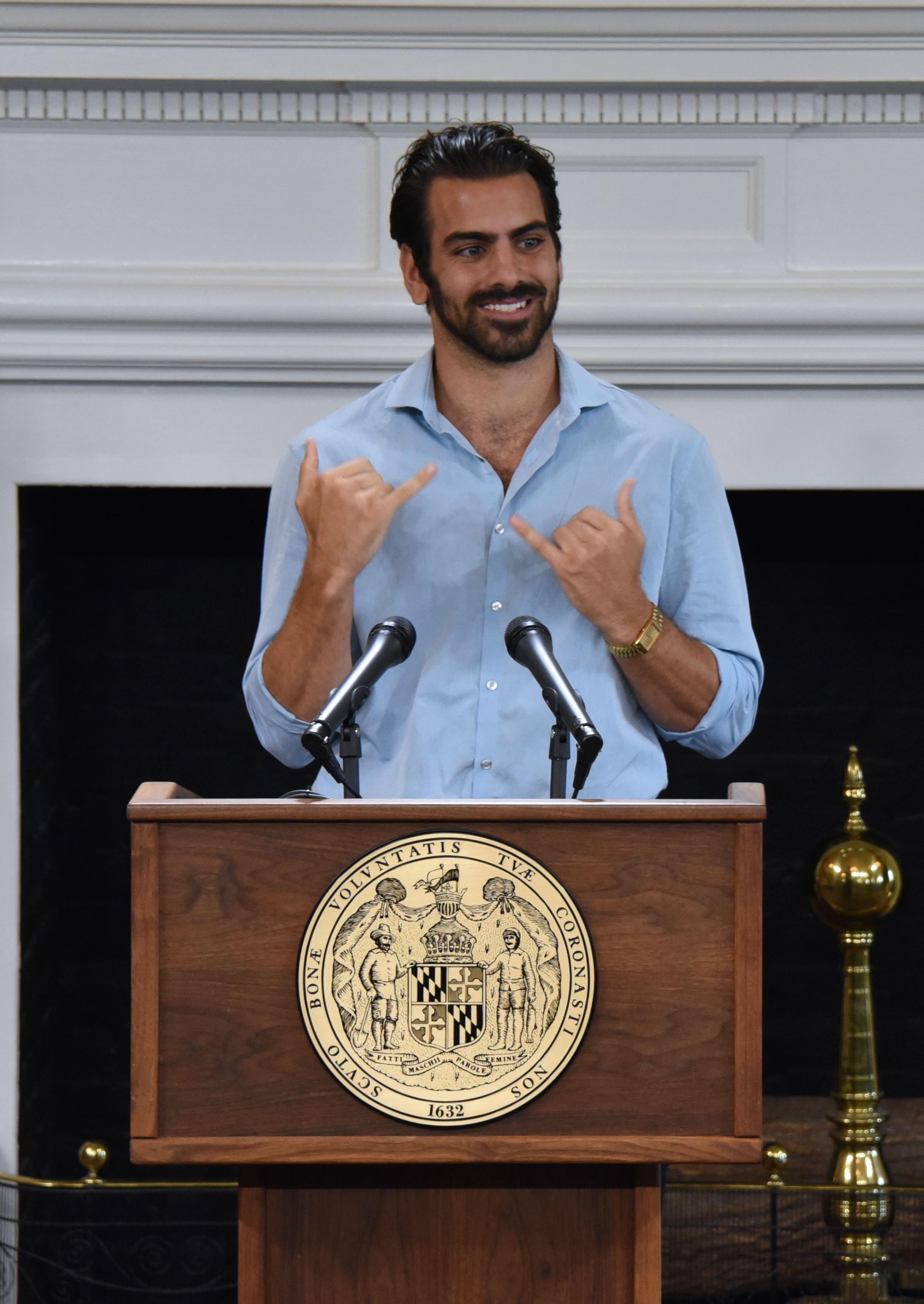 Governor Hogan Presents Citation to Nyle DiMarco by Joe Andrucyk at Maryland State House, 100 State Circle, Governor’s Reception Room